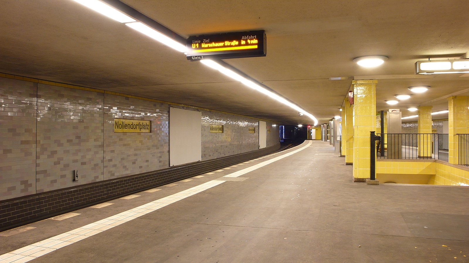 U1Nollendorfplatz